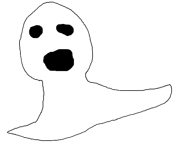 Hand drawn ghost for userbox on en.wiki